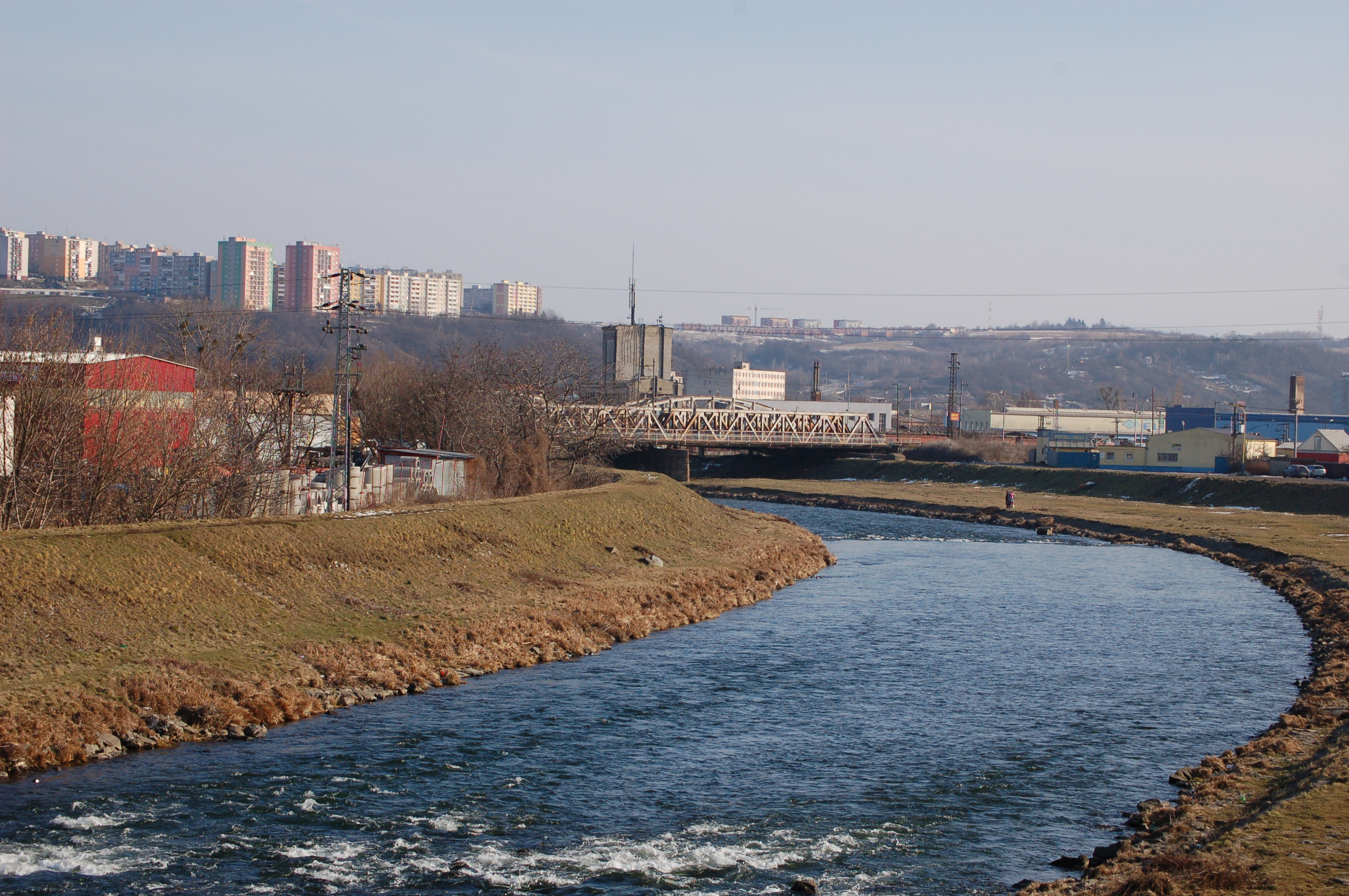 Hornád between Hlinková and Railway bridge in Košice-Džungľa